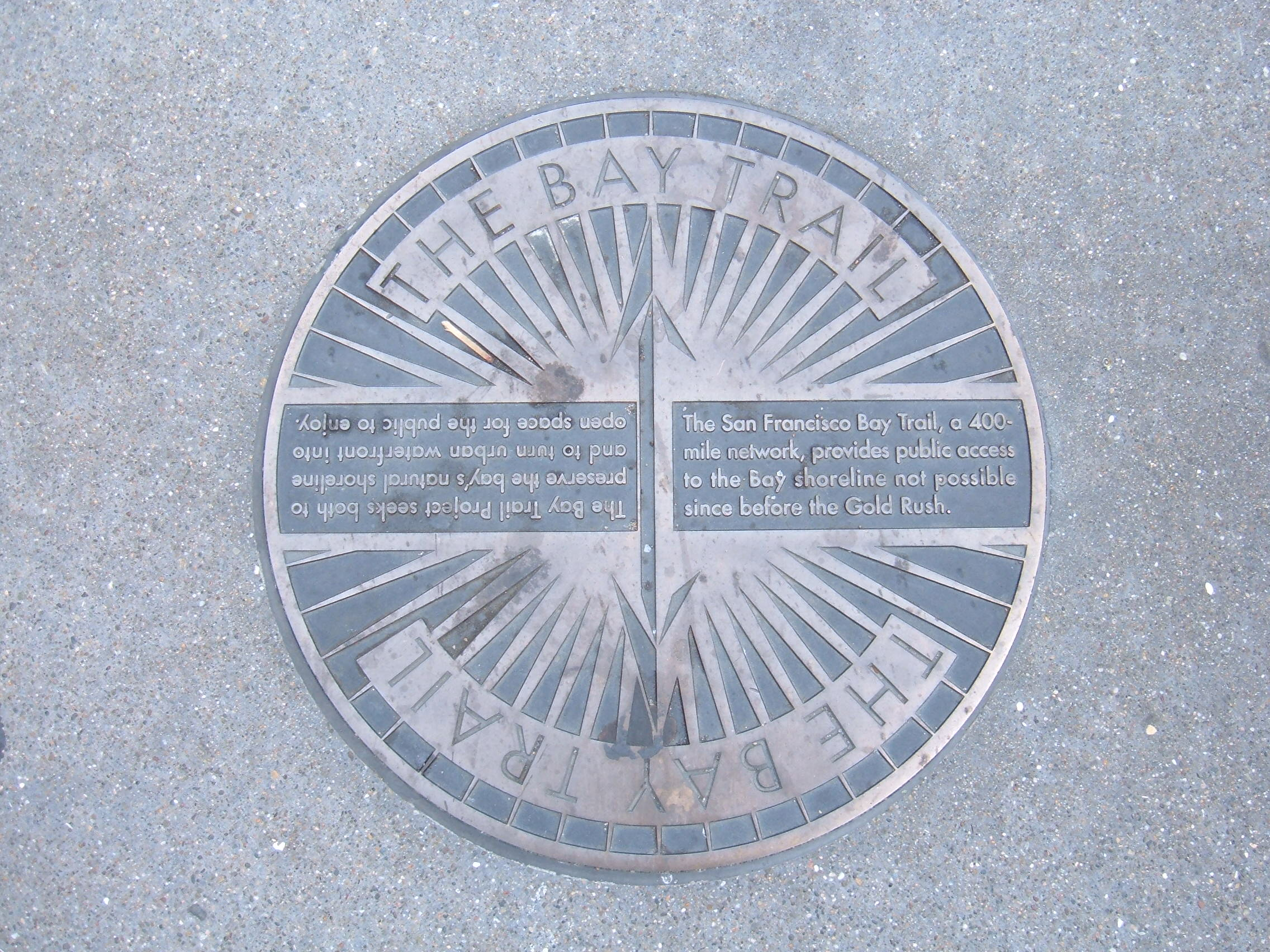 A plaque denoting the Bay Trail on The Embarcadero in San Francisco.